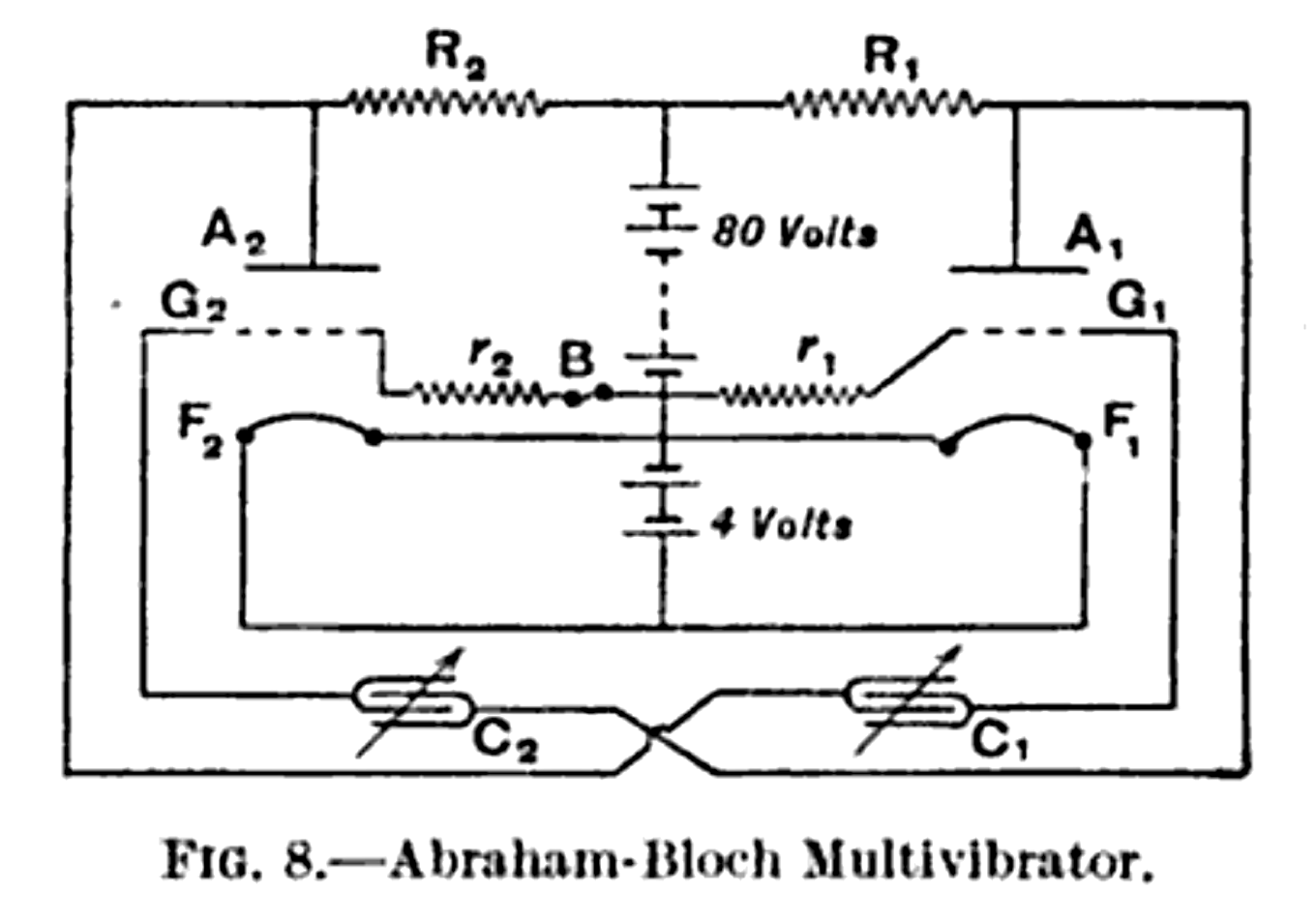 The first astable multivibrator circuit, invented by French engineers Henri Abraham and Eugene Bloch, from their 1919 paper. The Abraham-Bloch multivibrator, built with triode vacuum tubes, was the first relaxation oscillator circuit, and the predecessor of the Eccles-Jordan flip-flop widely used in modern digital logic. Abraham called the cross coupled-oscillator a multivibrateur because its square-wave output was rich in harmonic frequencies, unlike the existing sine wave oscillators. The text gives the component values as R1 = R2 = 50 kΩ, r1 = r2 = 75 kΩ, C1 and C2 are 8 pF adjustables. The circuit could oscillate at frequencies up to 50 kHz.